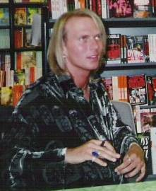 Luke Goss photographed at a book signing in 1993. Own image.